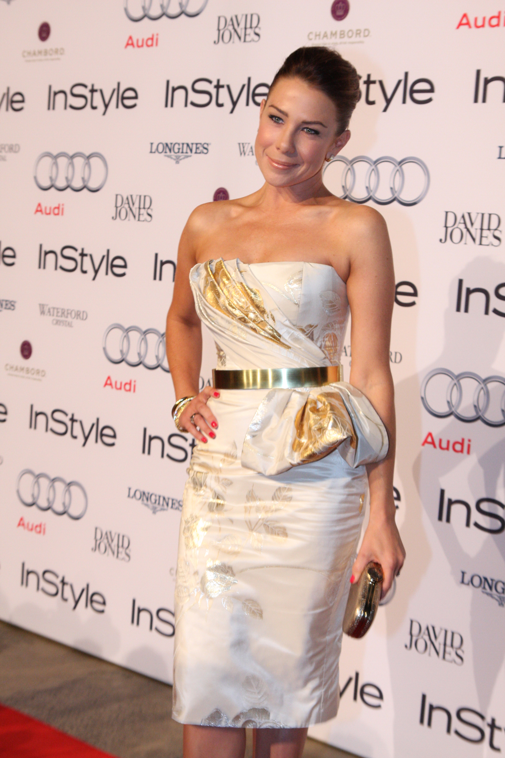 Actress Kate Ritchie at the InStyle Women Of Style Awards